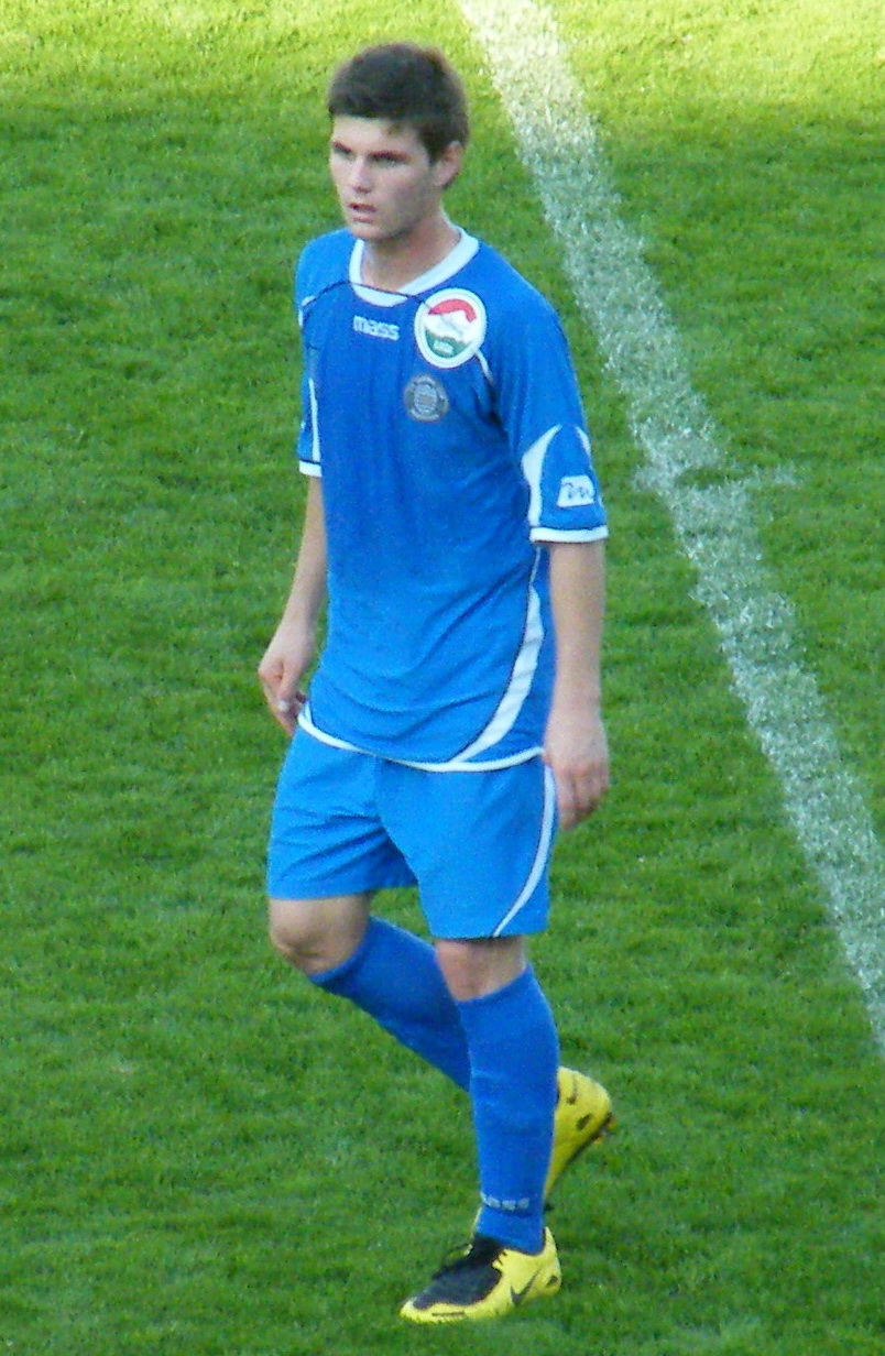 Márk Petneházi Hungarian association football player.